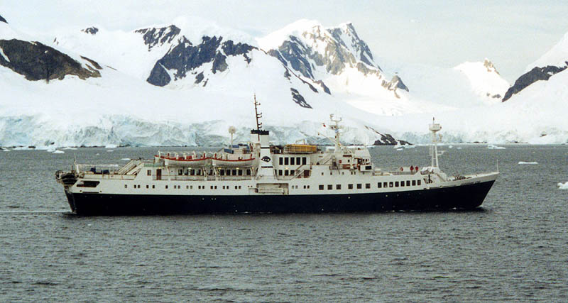 Photo of Caledonian Star in Paradise Bay, Antarctica